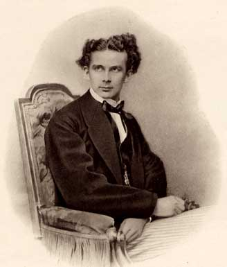 Ludwig (Louis) II, King of Bavaria, (1845-1886)